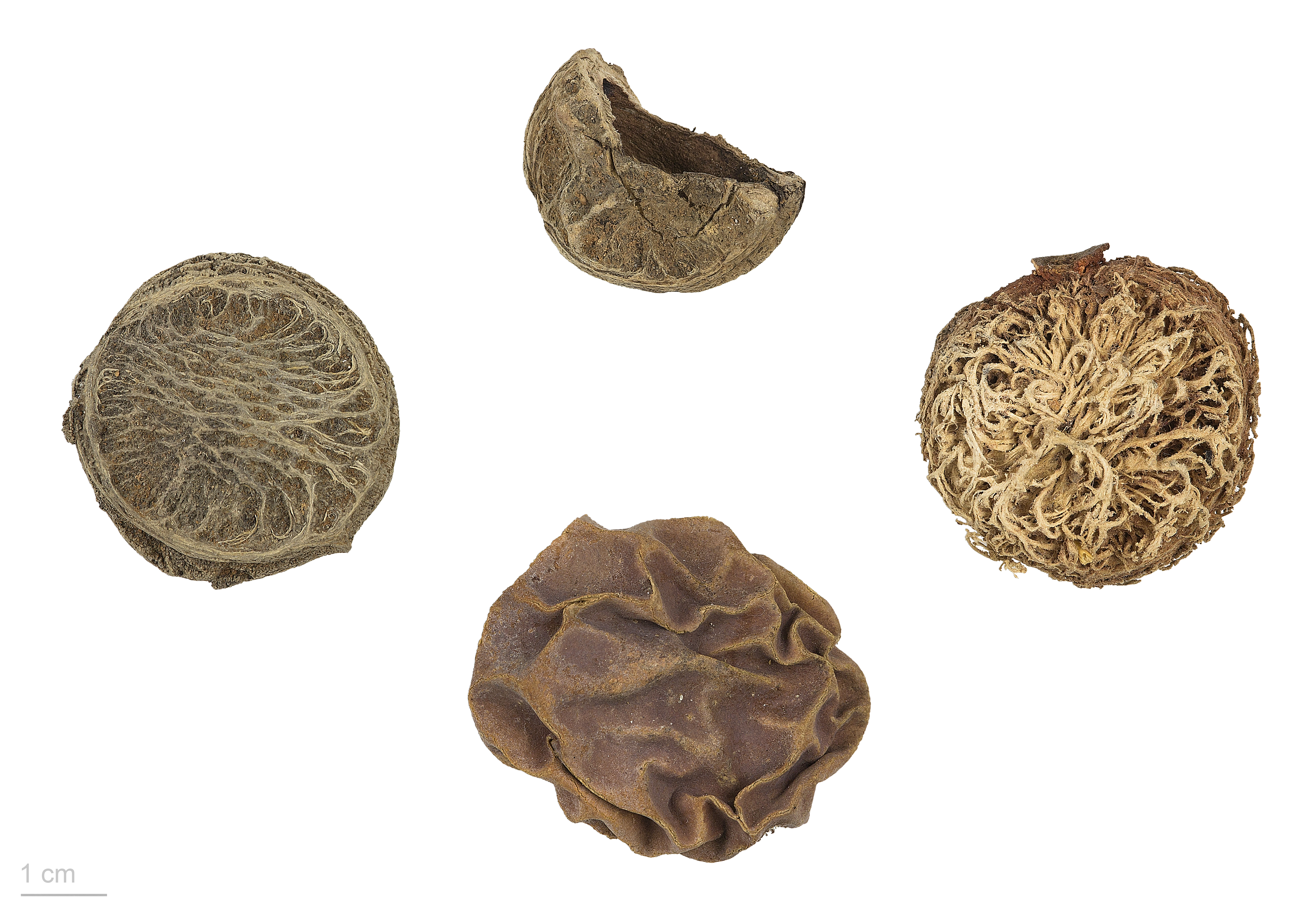 Detarium senegalense, ditax, seeds